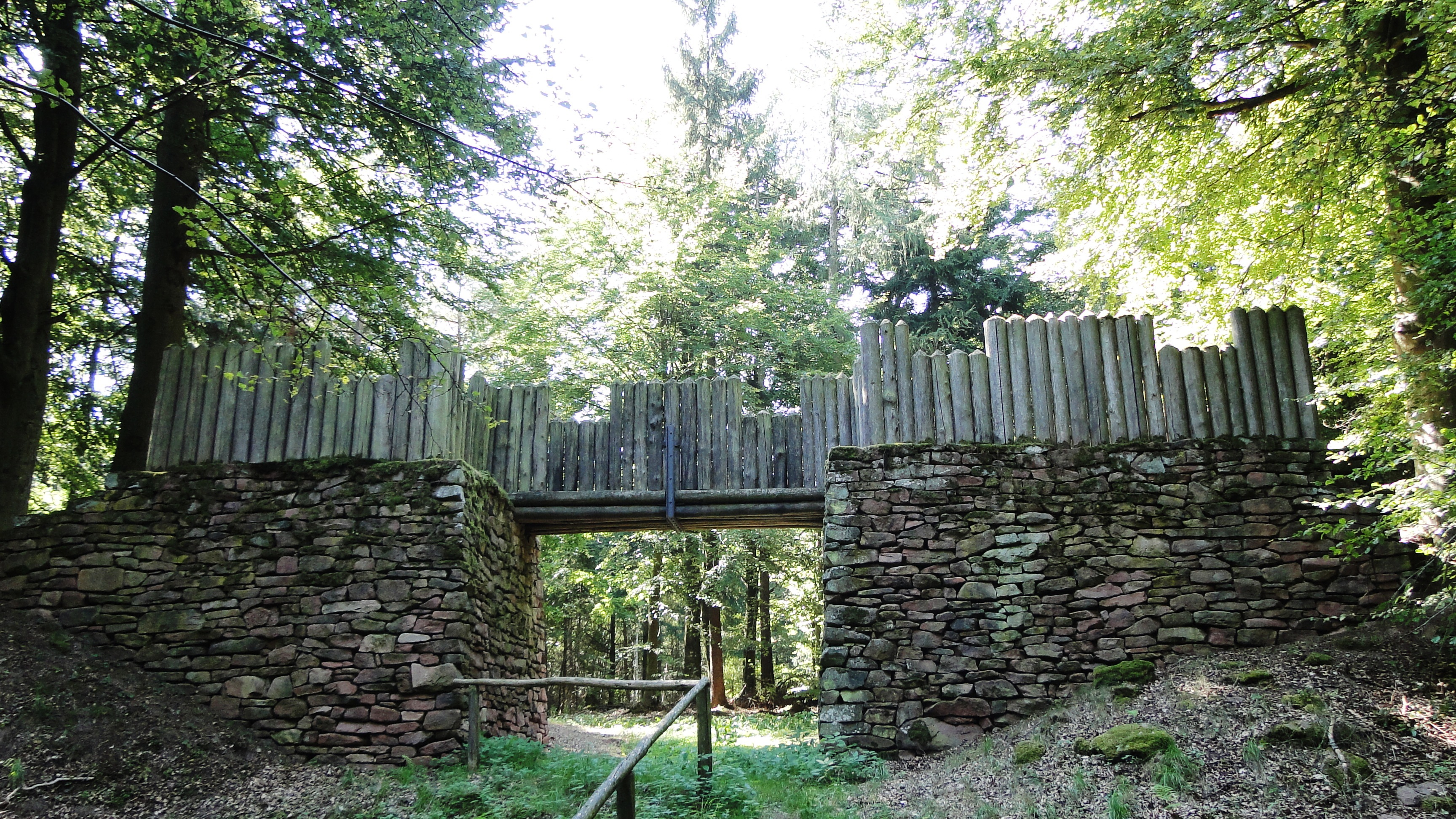 Ringwall Bürgstadter Berg, above Bürgstadt, Germany. Reconstructed gate of the Urnfield-period fortification.